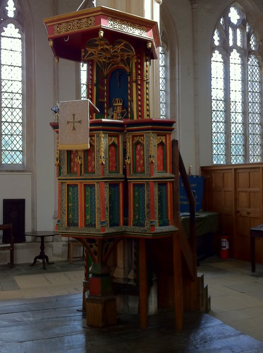 The pulpit in the Church of St Mary and All Saints, Fotheringhay, Northamptonshire